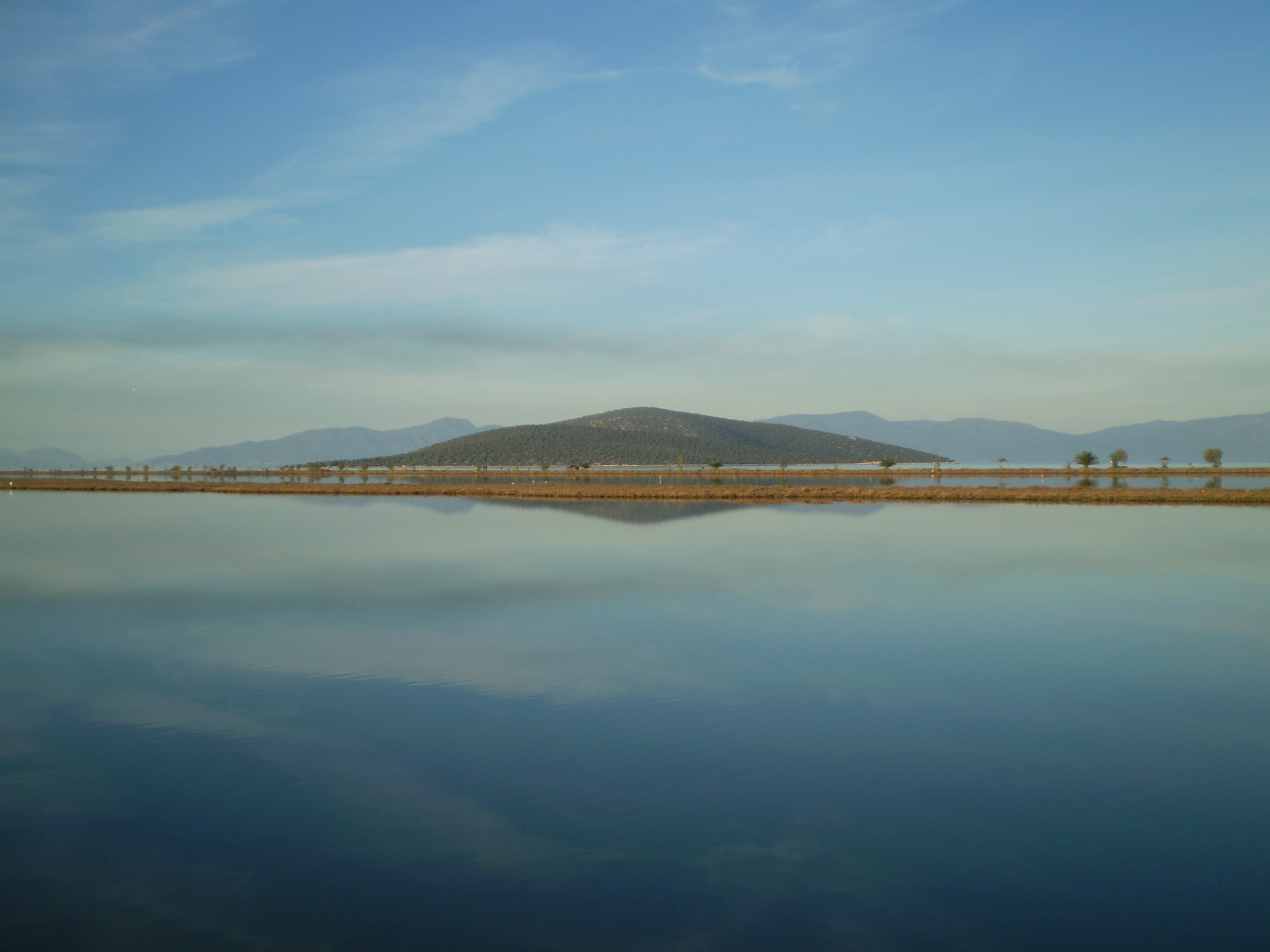 Paliomagaza beach in Kiparissi Fthiotidos